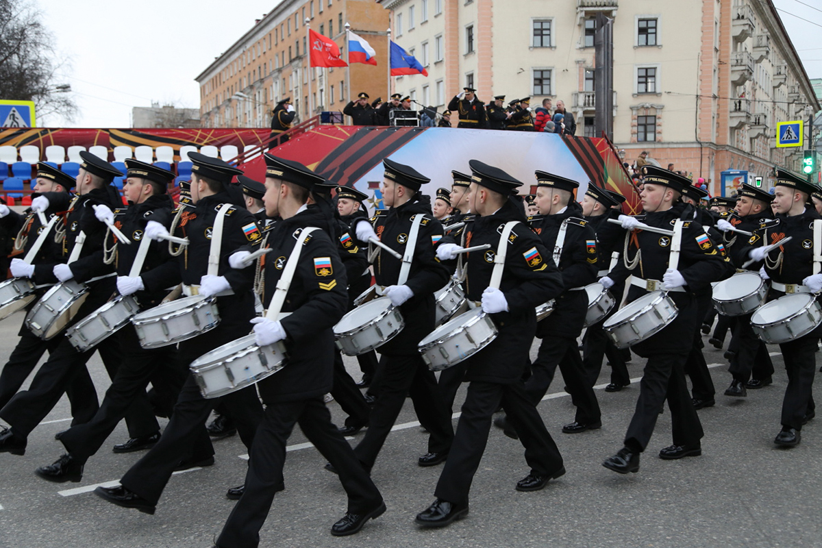 General rehearsal of the military parade in Murmansk.